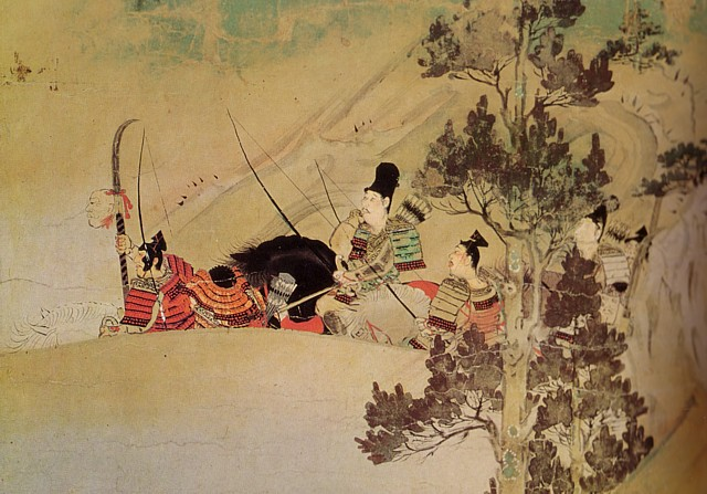 2th Section, Shinzei Scroll, Heiji Monogatari Emaki (detail).